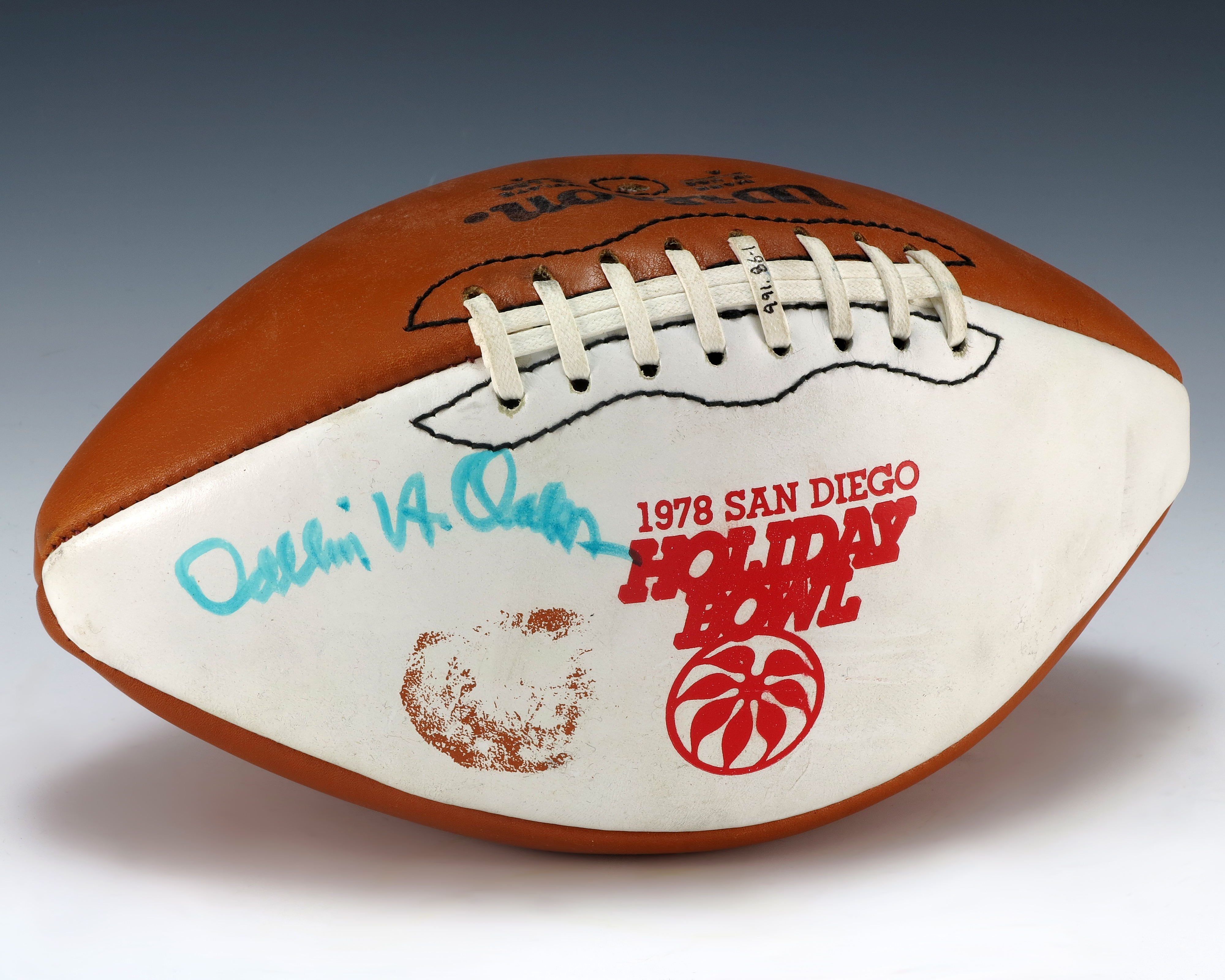 A 1978 Holiday Bowl football that features three tan panels and one white panel. The white panel features a commemoration on the inaugural Holiday Bowl and contains a signature by the BYU president at the time, Dallin H. Oaks. In 1975 President Ford included Dallin H. Oaks in a list of nominees for the Supreme Court.